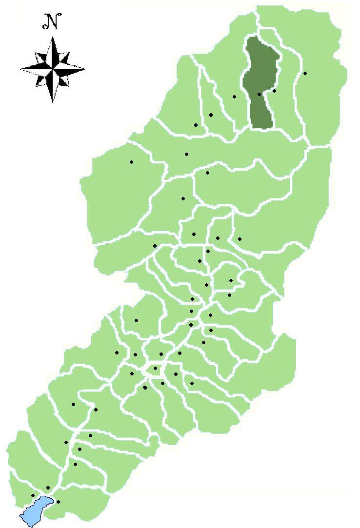 Map of the Comune di Vione, Valle Camonica